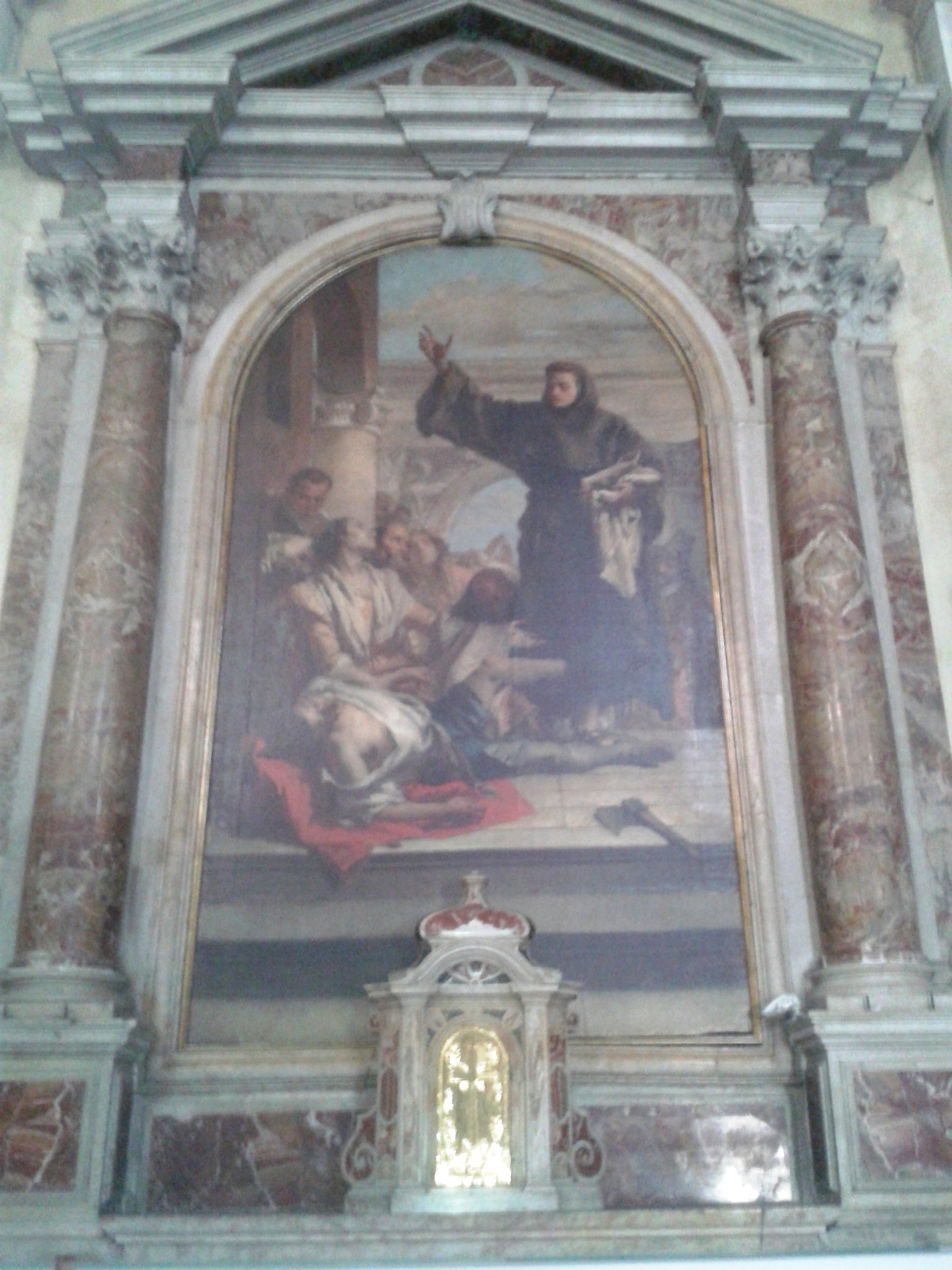 Pala del Miracolo di Sant'Antonio del Tiepolo nel Duomo di Mirano